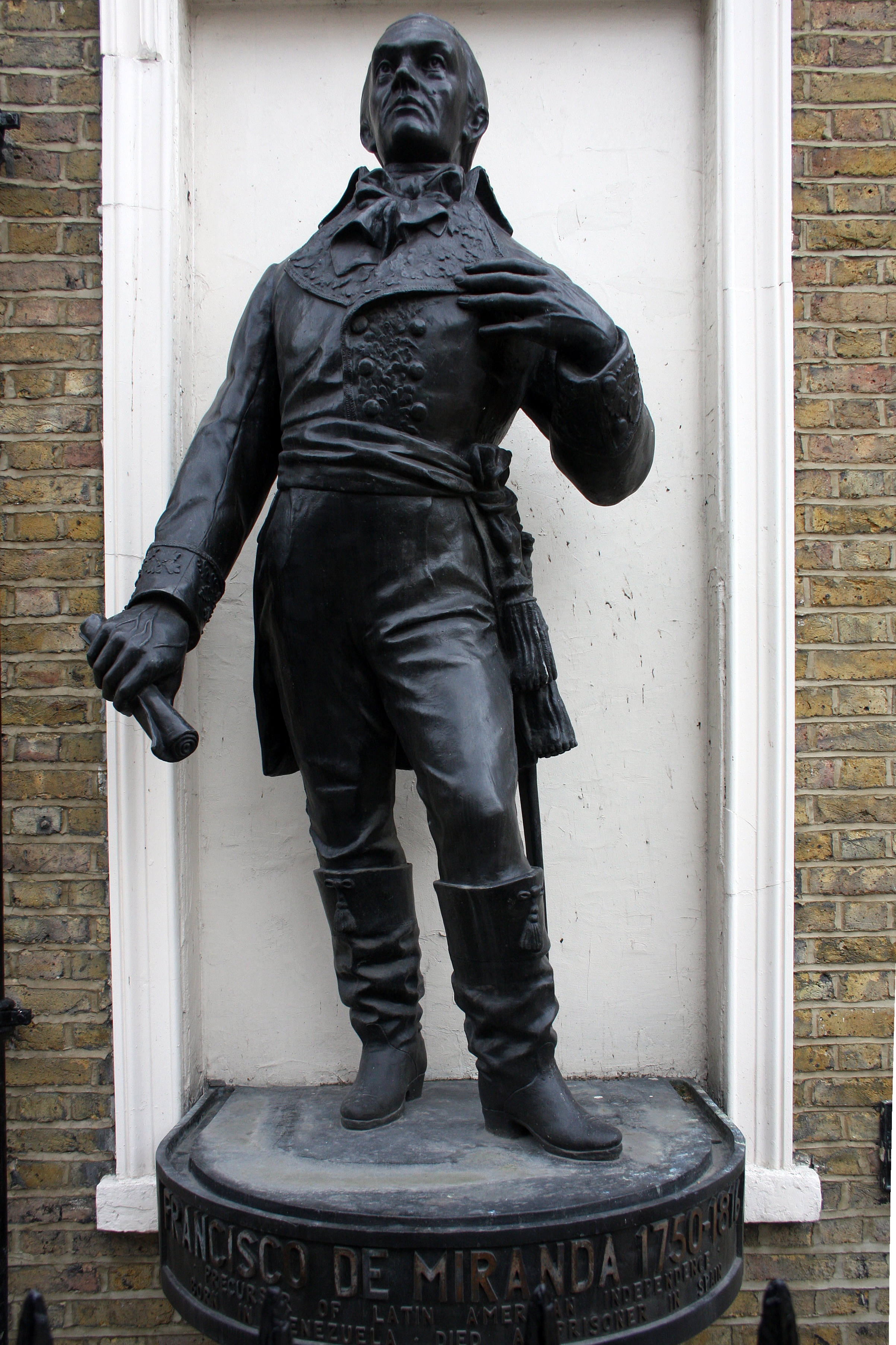 Statue of Francisco de Miranda in Fitzroy Street, London. Transcription: "Francisco de Miranda 1750–1816 · Precursor of Latin American independence · Born in Venezuela · Died a prisoner in Spain" (This statue is a modern copy of an original by Rafael de la Cova)